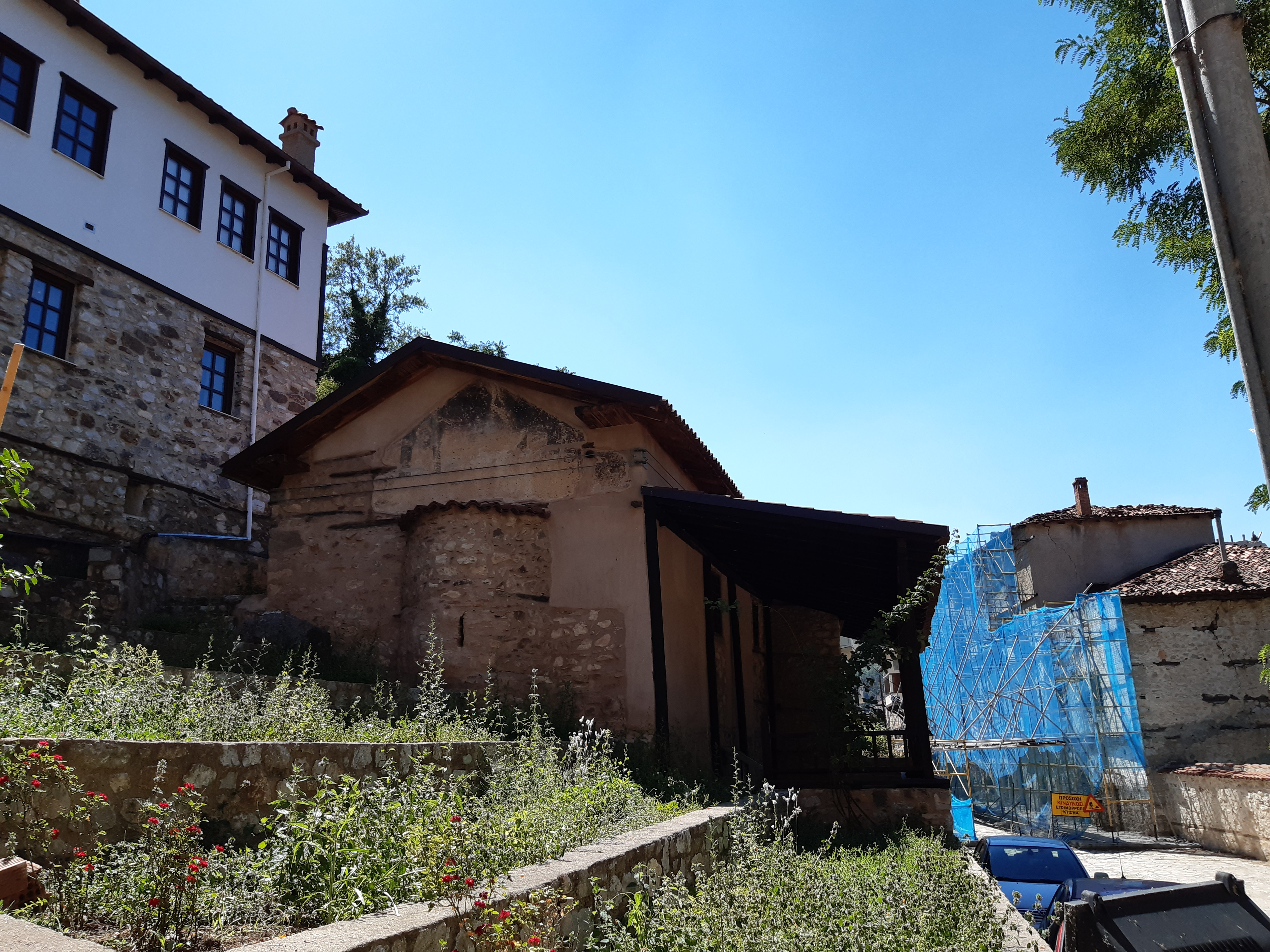 Saint Nicholas of Tzotzas Church